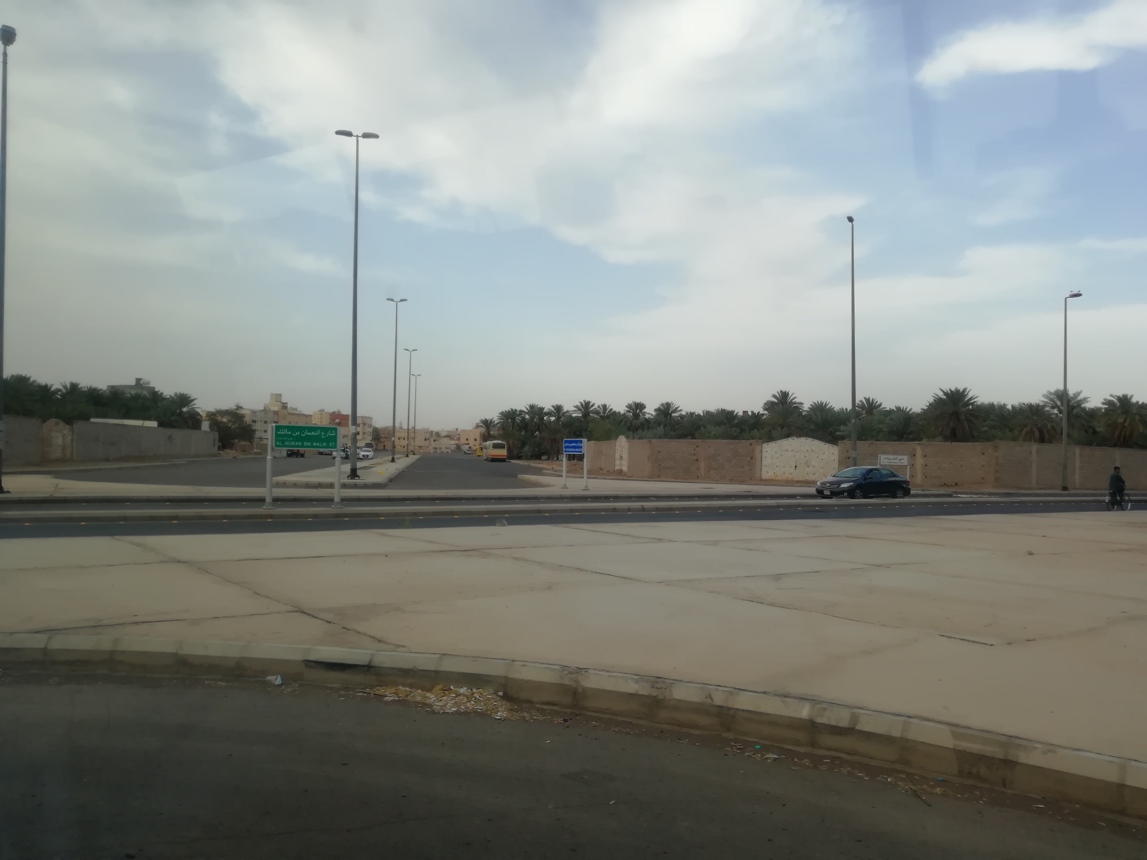 al-Madinah al-Munawarah Awaly district Maria al-Qebtayia house site Where prophet Muhammad sought rest when Umahat al-Mo'emeneen tricked him (Mujadala sura)